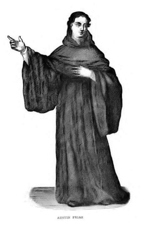 Published London